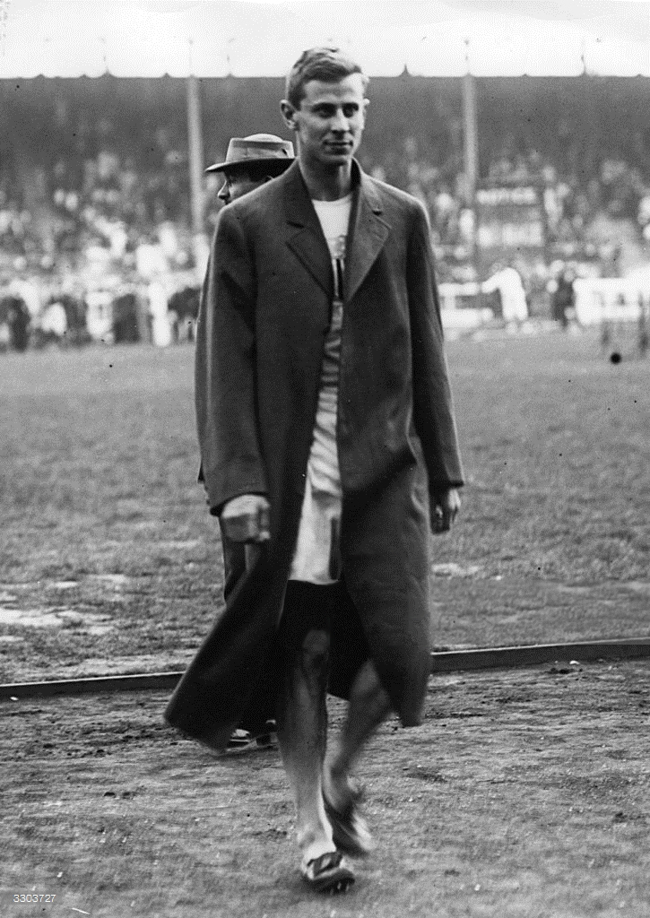 US Sprinter John Conduit Carpenter 1908 Olympics, on the track preparing for the 400 meter event